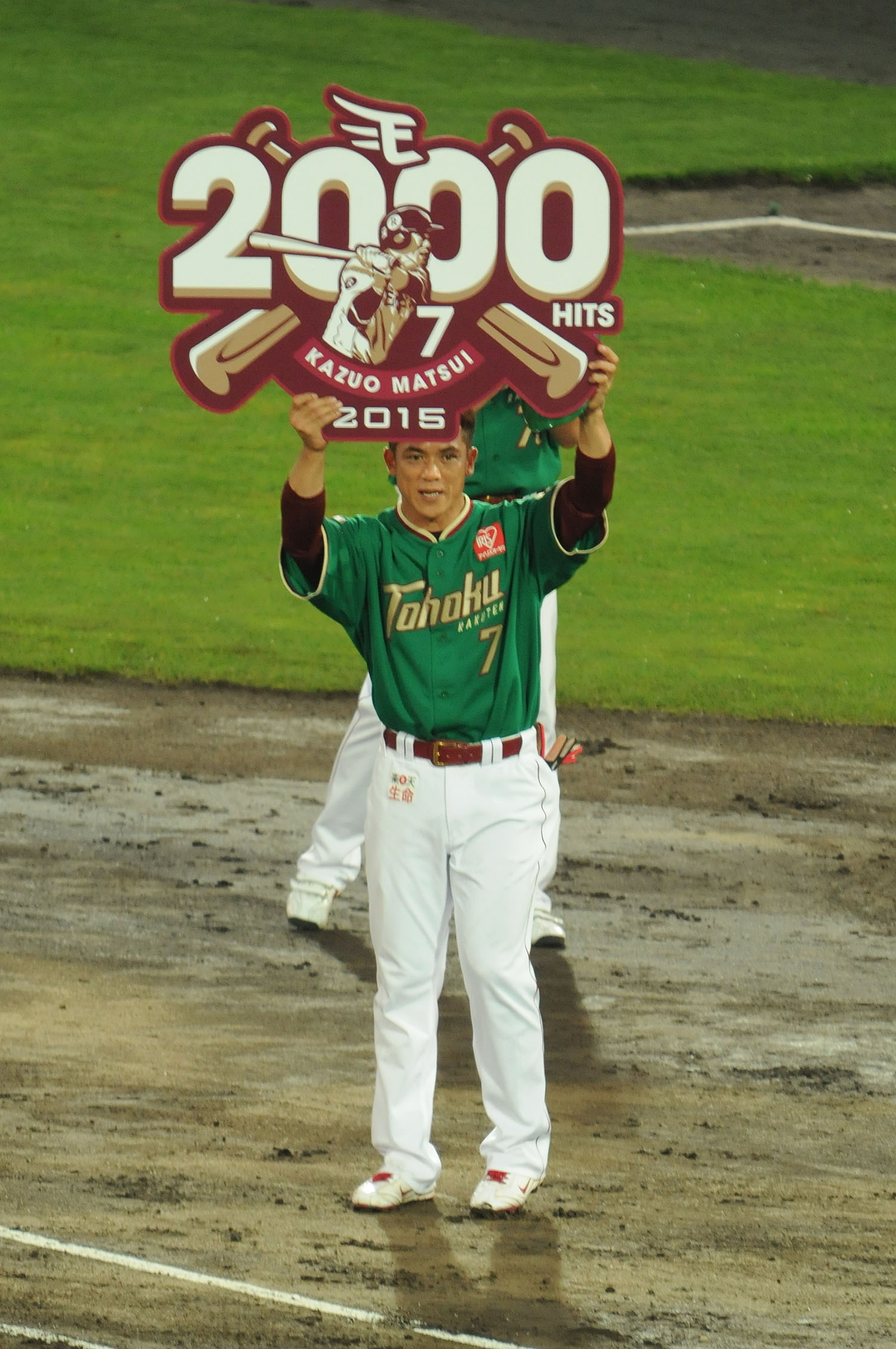 Kazuo Matsui, infielder of the Tohoku Rakuten Golden Eagles, at Akita Prefectural Baseball Stadium.